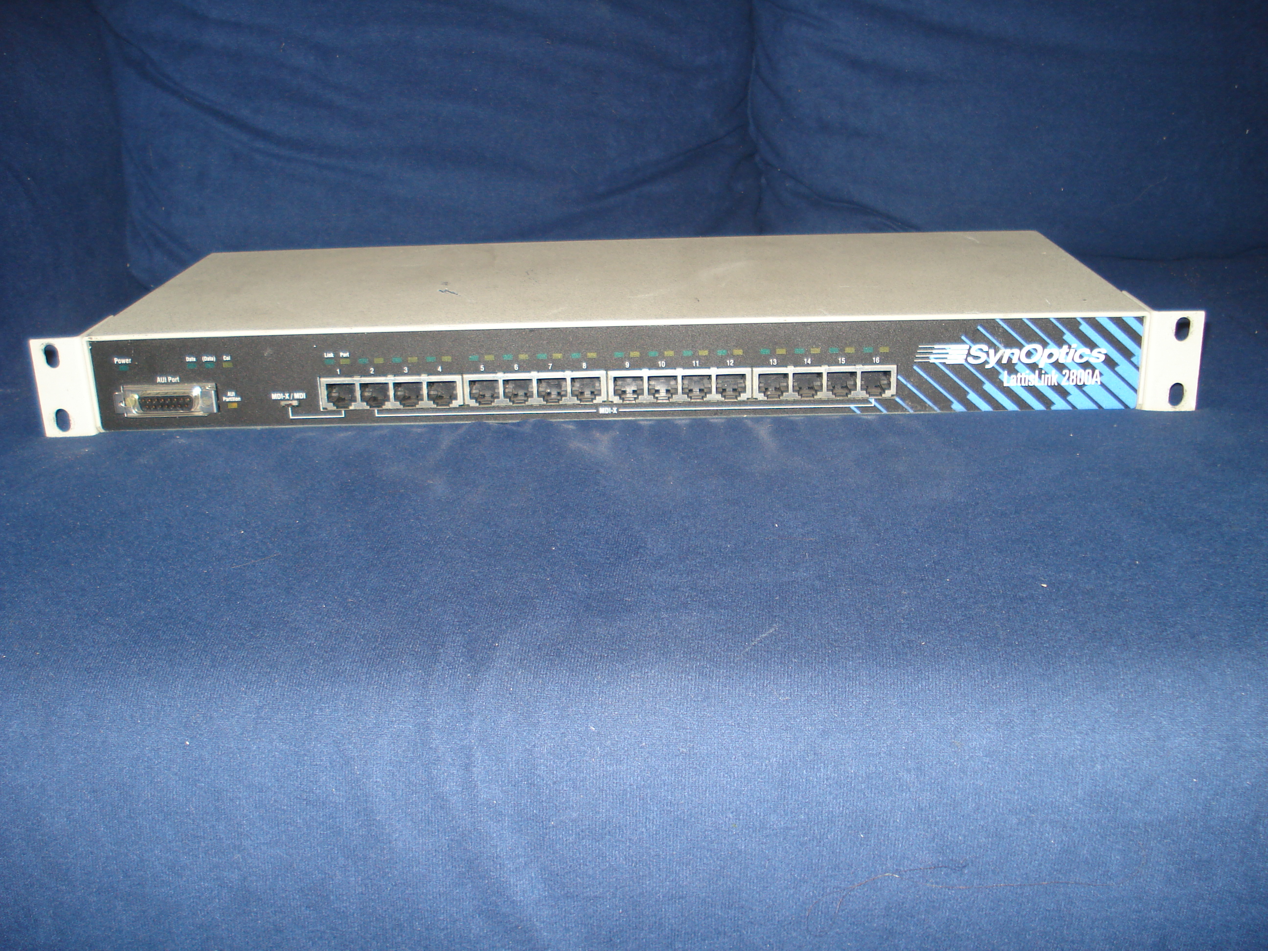 Un hub SynOptics rackable LattisLink 2800A